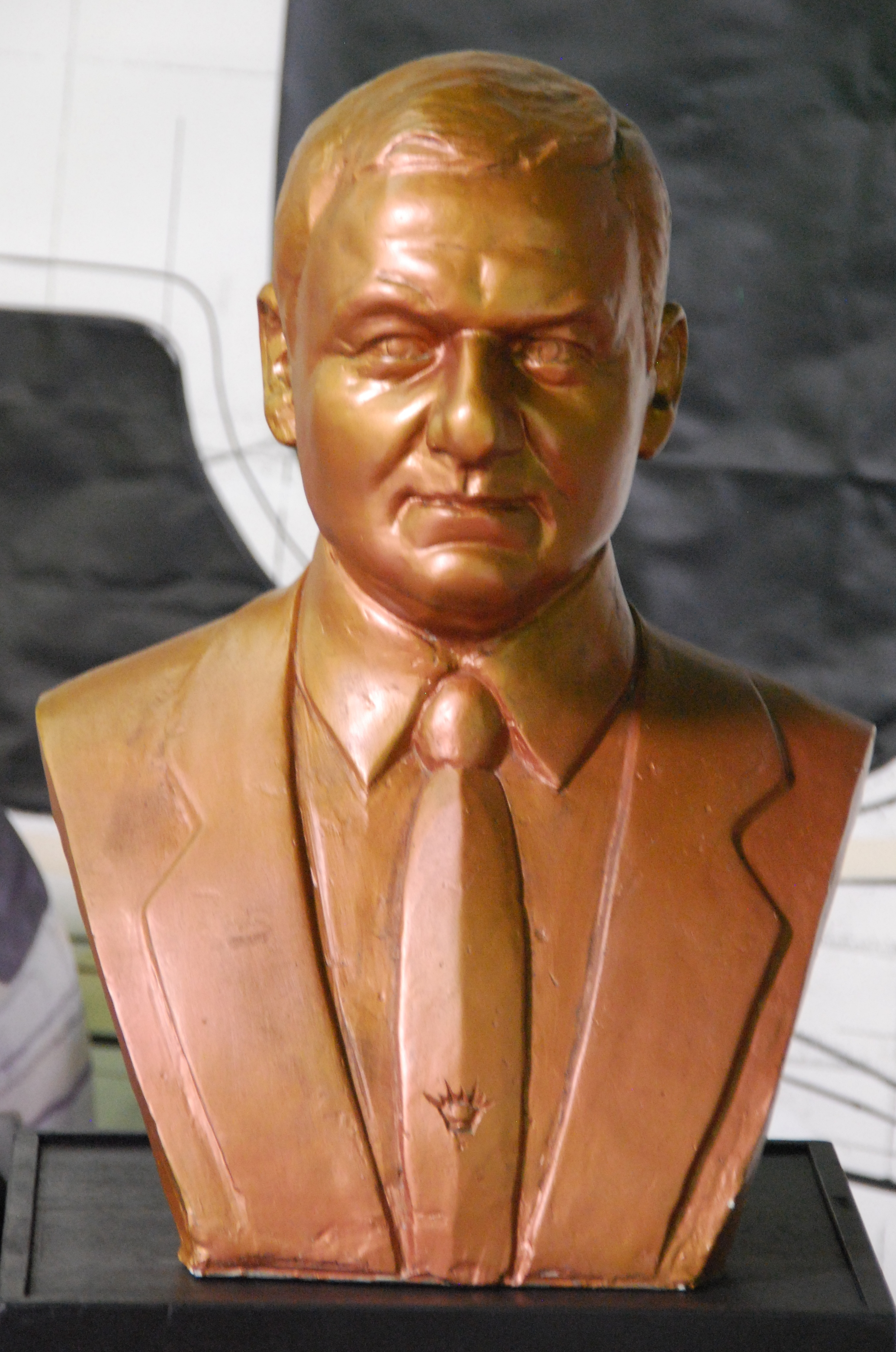 Statue of Peter Monteverdi in his automobile museum in Basel, Switzerland.